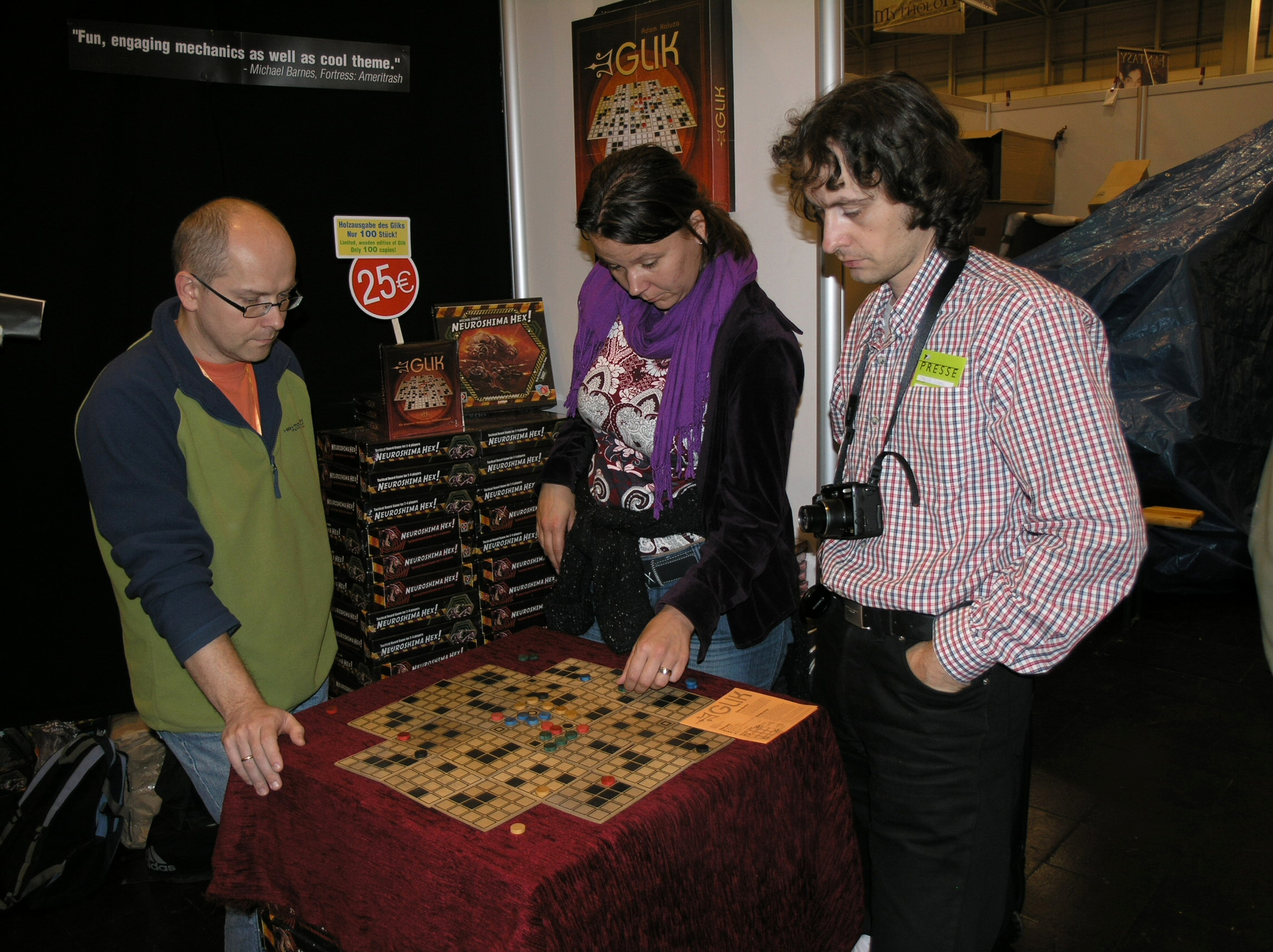 Personality rights warning Although this work is freely licensed or in the public domain, the person(s) shown may have rights that legally restrict certain re-uses unless those depicted consent to such uses. In these cases, a model release or other evidence of consent could protect you from infringement claims.